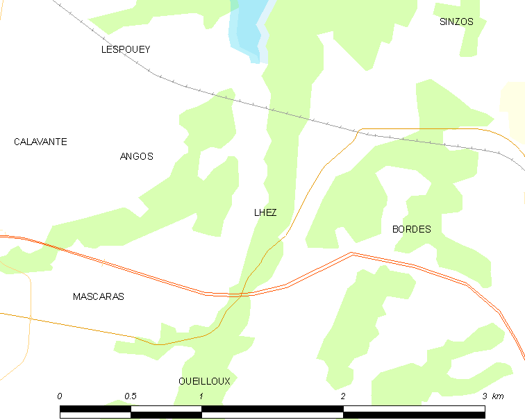 Map of French municipality